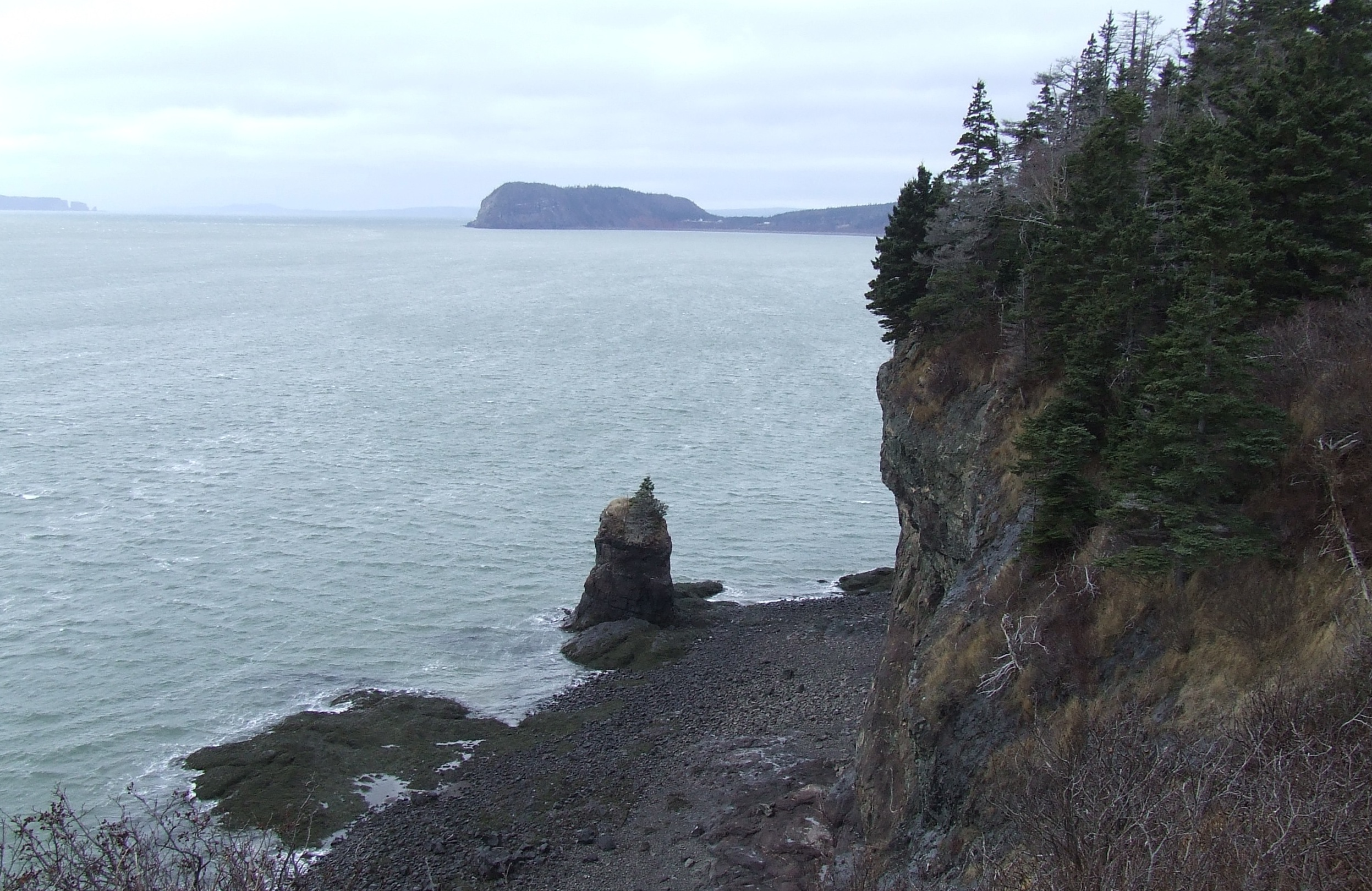 View from lookoff at the top of Partridge Island, Nova Scotia at the end of the island's hiking trail. Cape Sharp appears in the distance on the right, while Cape Split is further away on the left. Partridge Island